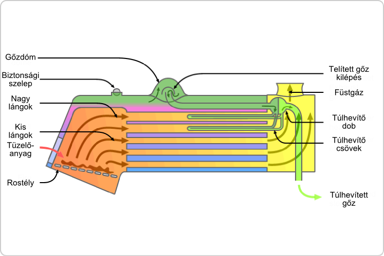 Schematic diagram of a locomotive type fire-tube boiler